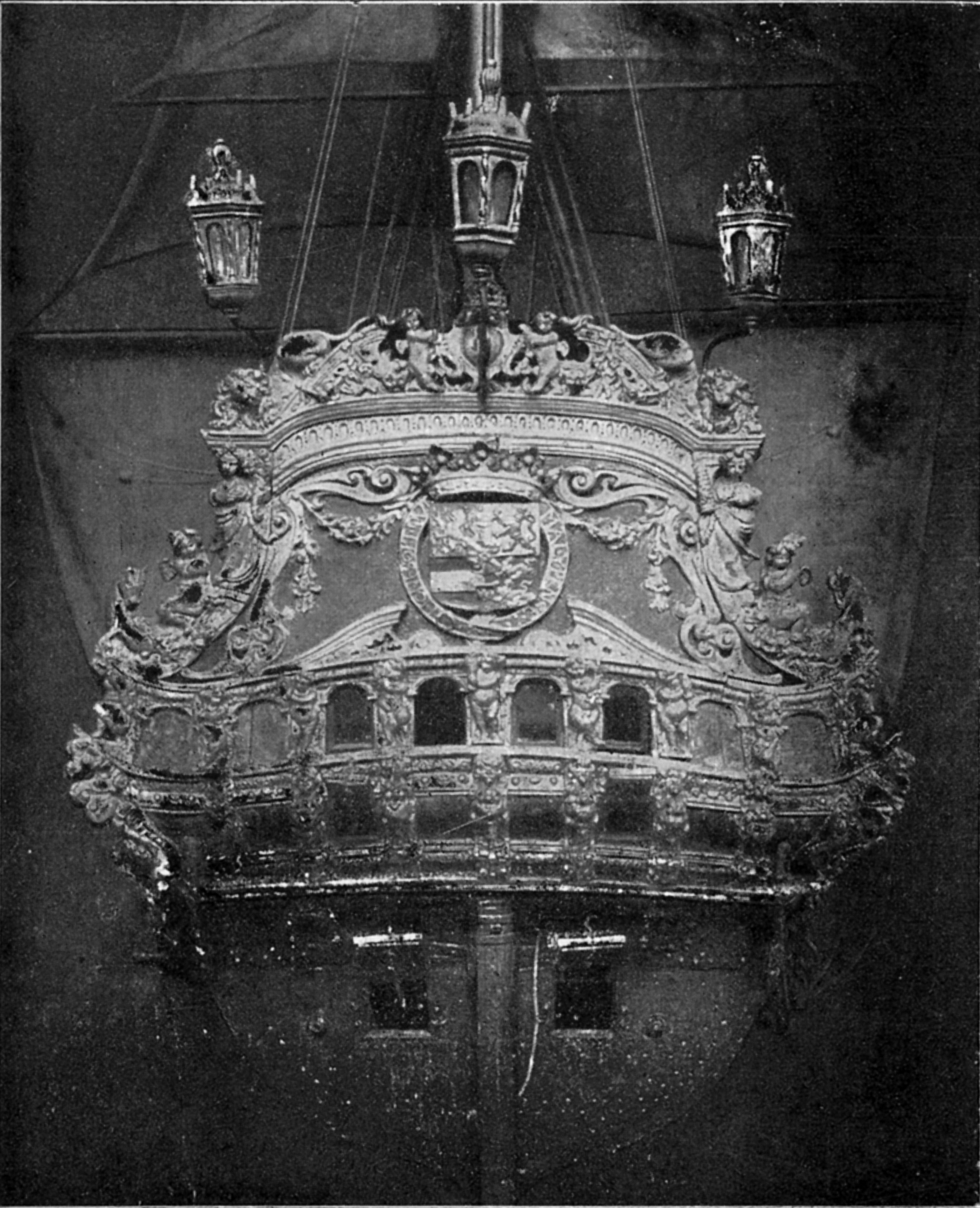 sternview